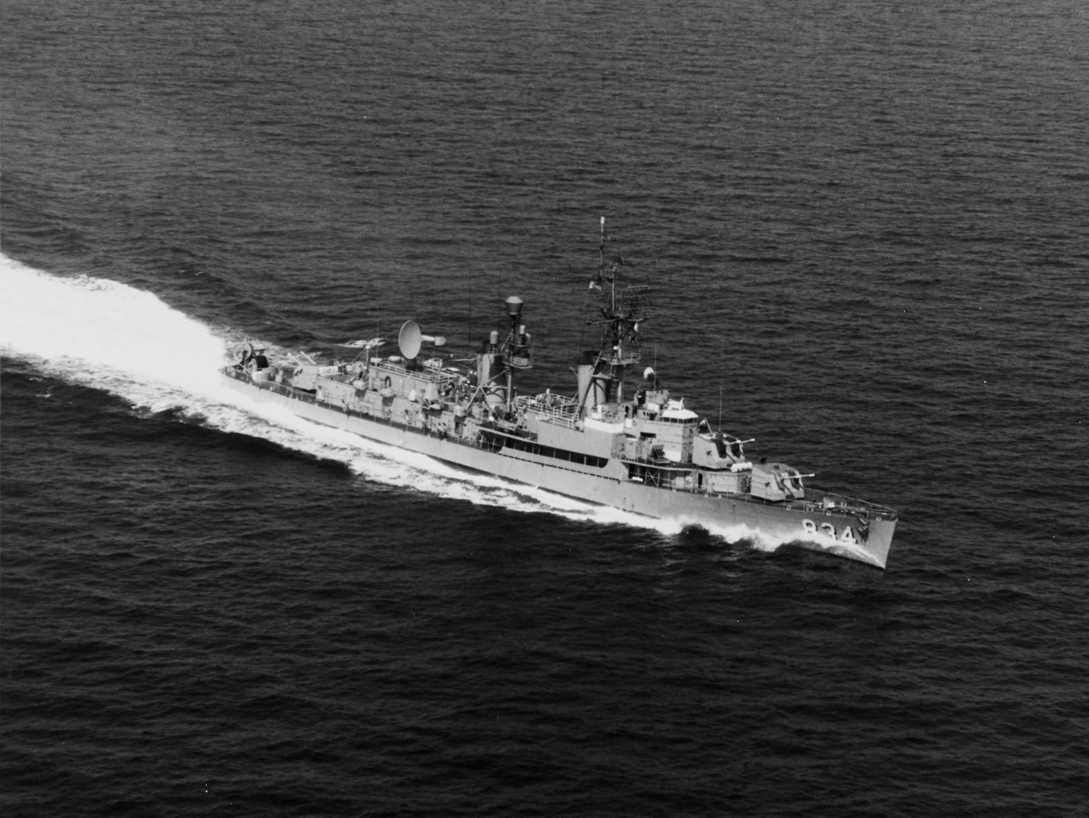 The U.S. Navy destroyer USS Turner (DDR-834) underway on 8 October 1965. Note the details of this final radar picket destroyer configuration, after FRAM II refit, including: variable depth sonar on stern, enlarged after superstructure, enlarged O1 level by fore stack, and SPS-30 radar aft.